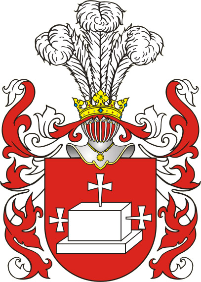 Herb Mogila Clan This image was uploaded in the JPEG format even though it consists of non-photographic data. This information could be stored more efficiently or accurately in the PNG or SVG format. If possible, please upload a PNG or SVG version of this image without compression artifacts, derived from a non-JPEG source (or with existing artifacts removed). After doing so, please tag the JPEG version with Superseded|NewImage.ext and remove this tag. This tag should not be applied to photographs or scans. For more information, see BadJPEG .